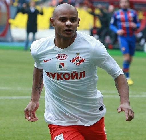 Ari playing for FC Spartak Moscow in 2013.